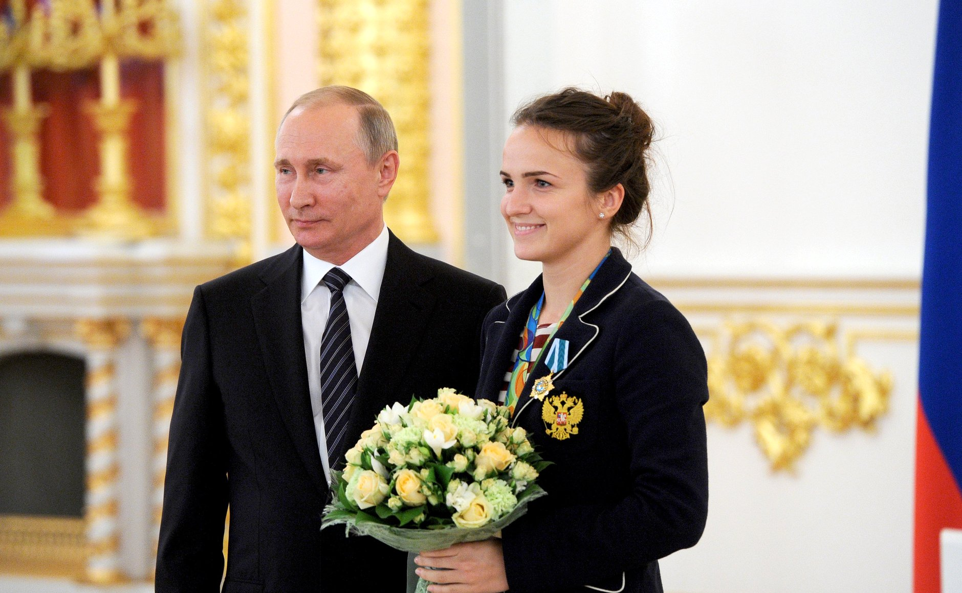 Vladimir Putin presented state awards to the Russian athletes who won gold medals at the 2016 Olympic Games in Rio de Janeiro (Brazil).